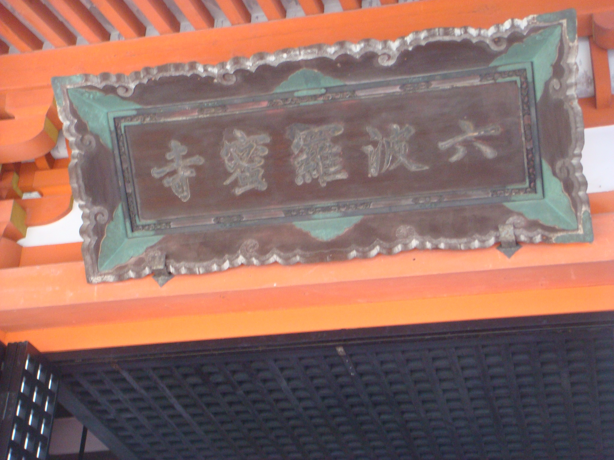 Rokuharamitsu-ji